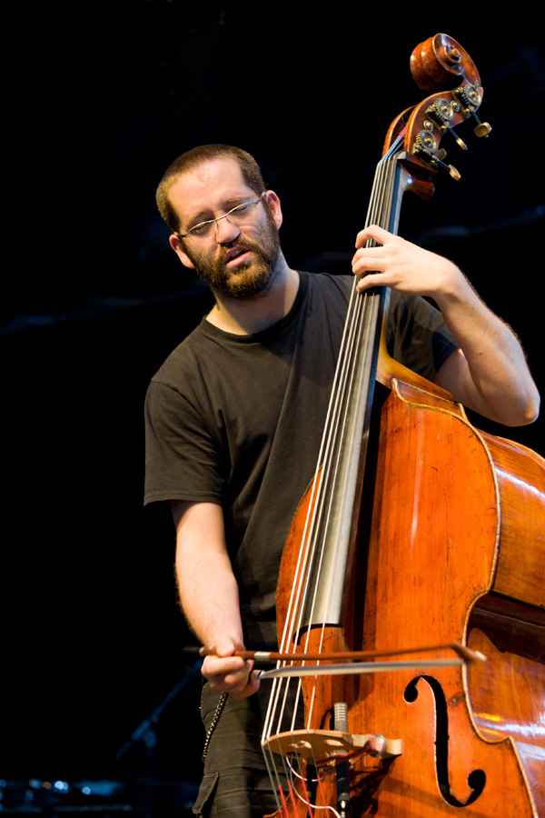 Robert Landfermann at moers festival 2012